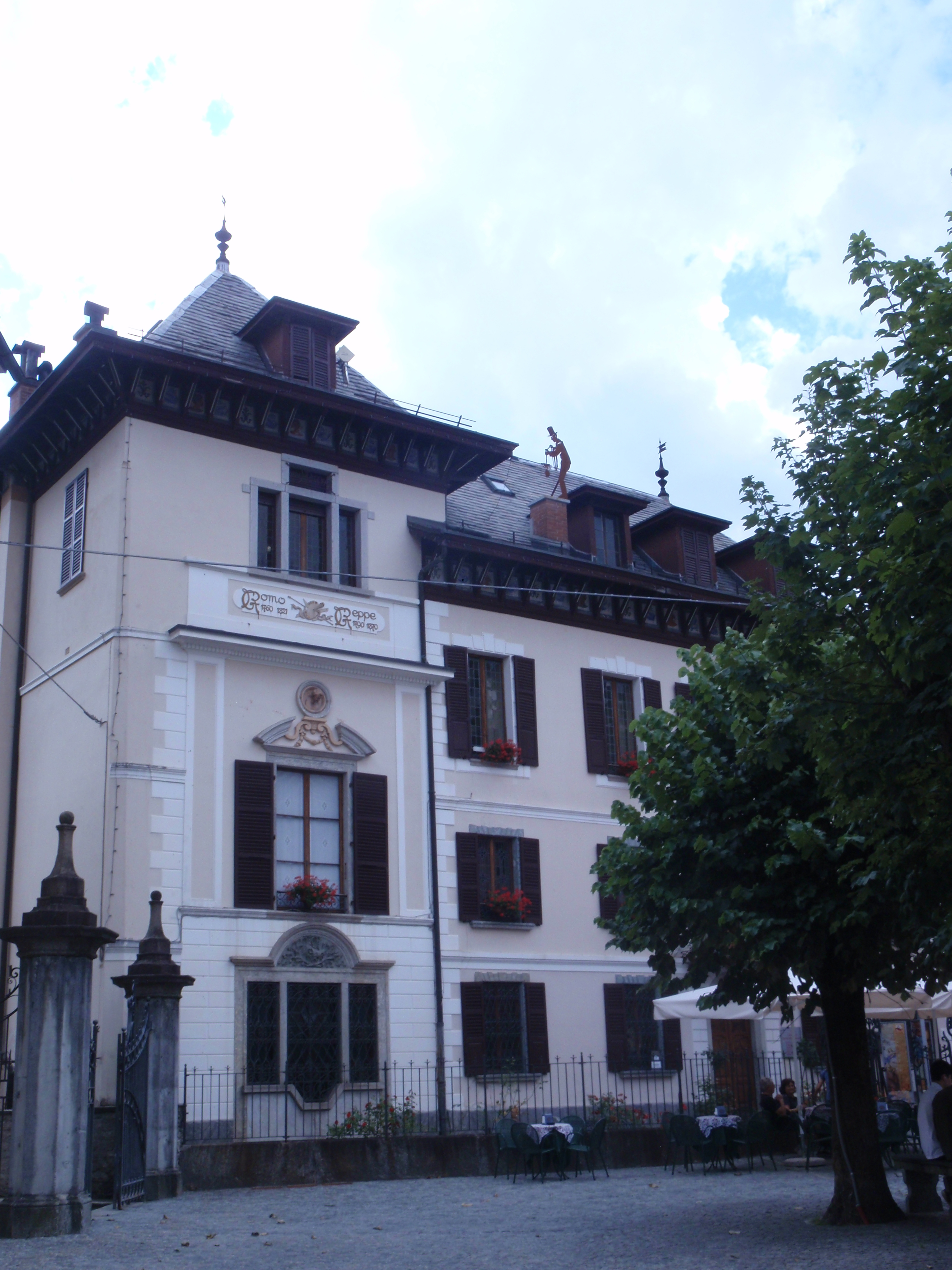 La settecentesca Villa Antonia, attuale sede del Comune.